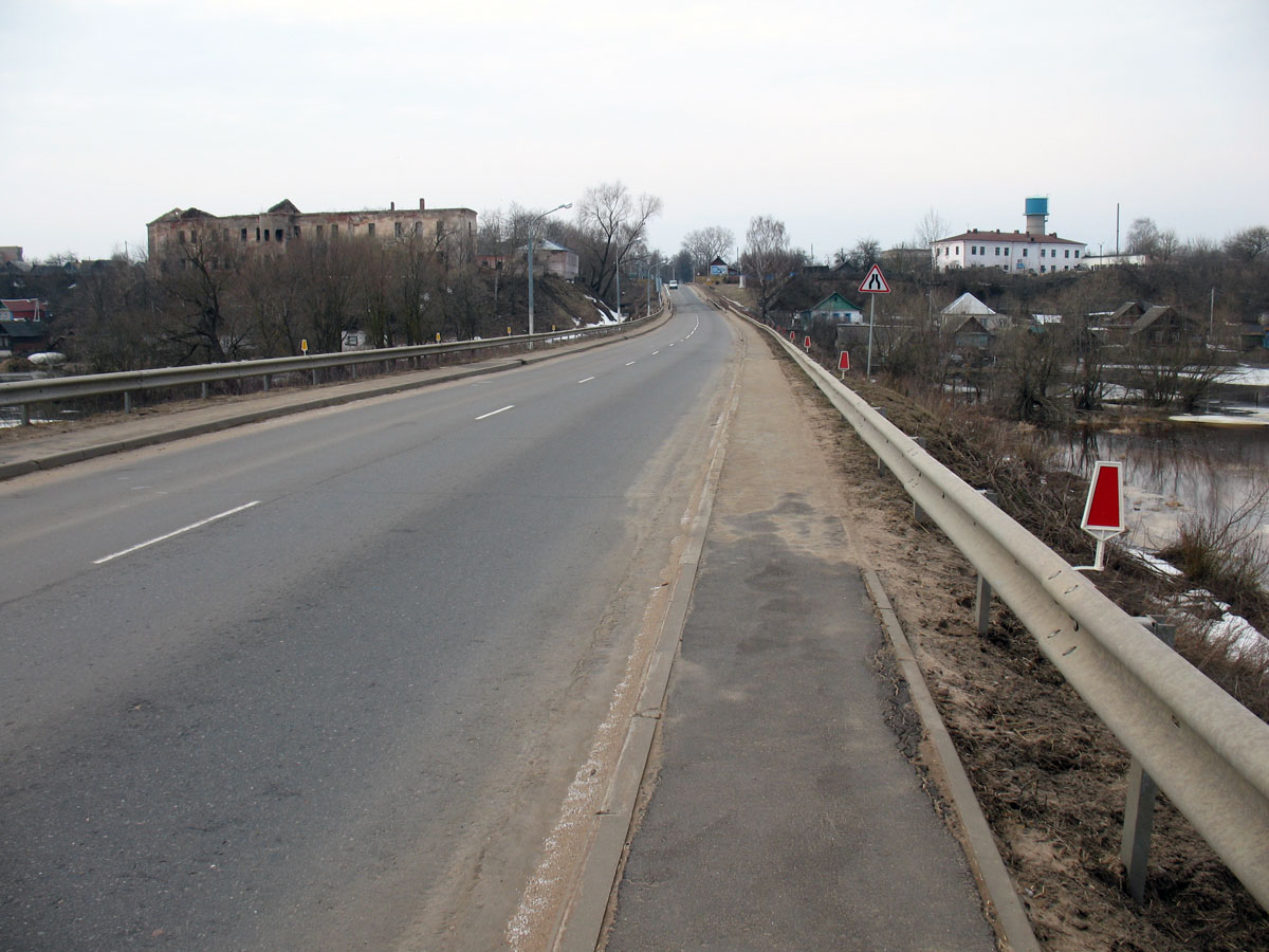 Bykhaw castle, march 2010. Photo by Tumash, Oldmah.